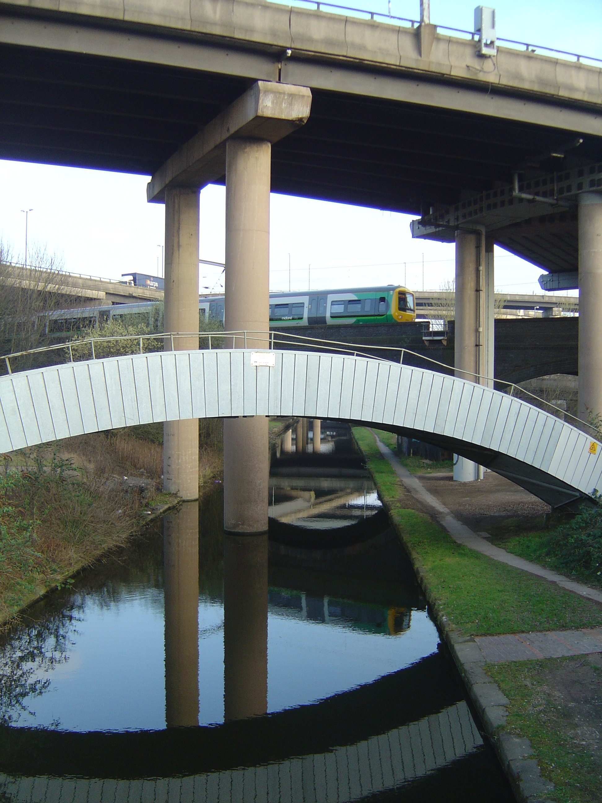 Motorway, railway and waterway at Gravelly Hill Interchange, Birmingham